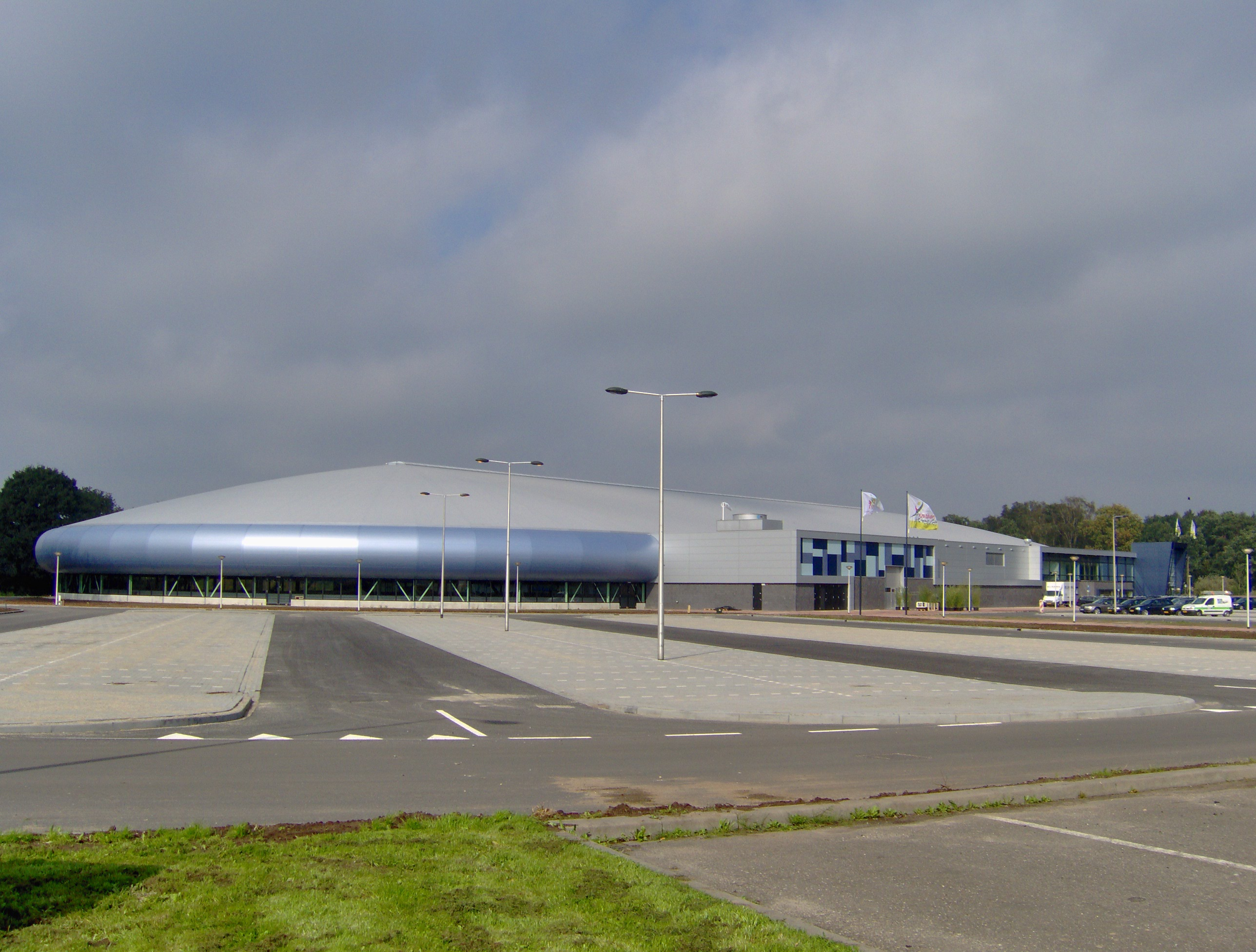 IJsbaan Twente, the second Dutch covered speedskating oval in Enschede, Overijssel, The Netherlands.